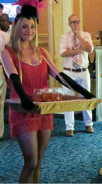 "Tales of the Cocktail" Drambuie VIP Party at The Roosevelt Hotel, New Orleans. She's serving Drambuie cocktails